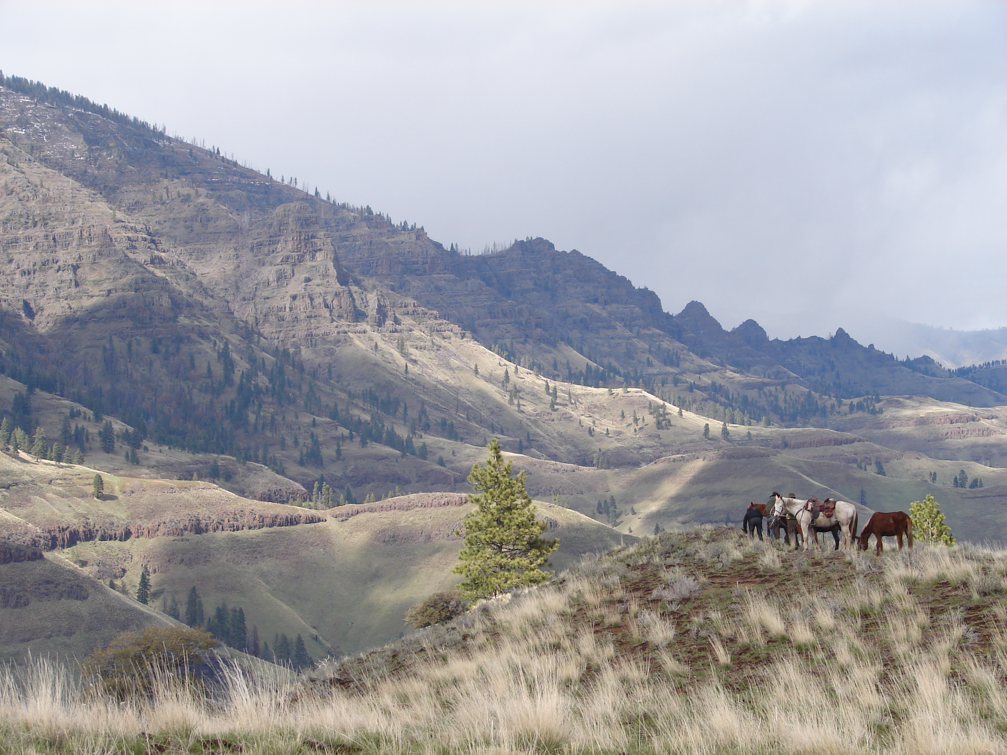 The Hells Canyon Wilderness, which straddles the Snake River in northeastern Oregon and western Idaho, United States